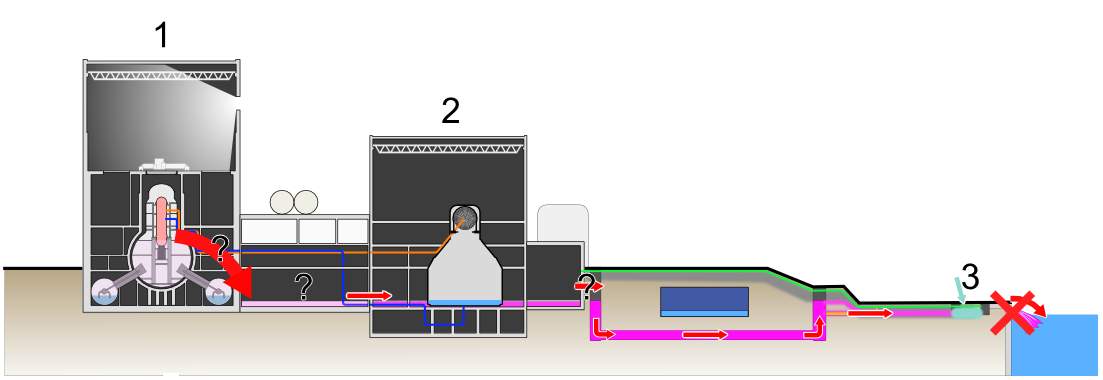 Fukushima I nuclear powerplant nuclear (leak case of high-level radiation water, trenches and tunnels) 1:Reactor building 2:Turbine building 3:Injection of Sodium silicateTEPCO found the flow route of the high radiation leak, which ran through the gravel layer under the ground, not via pipes.